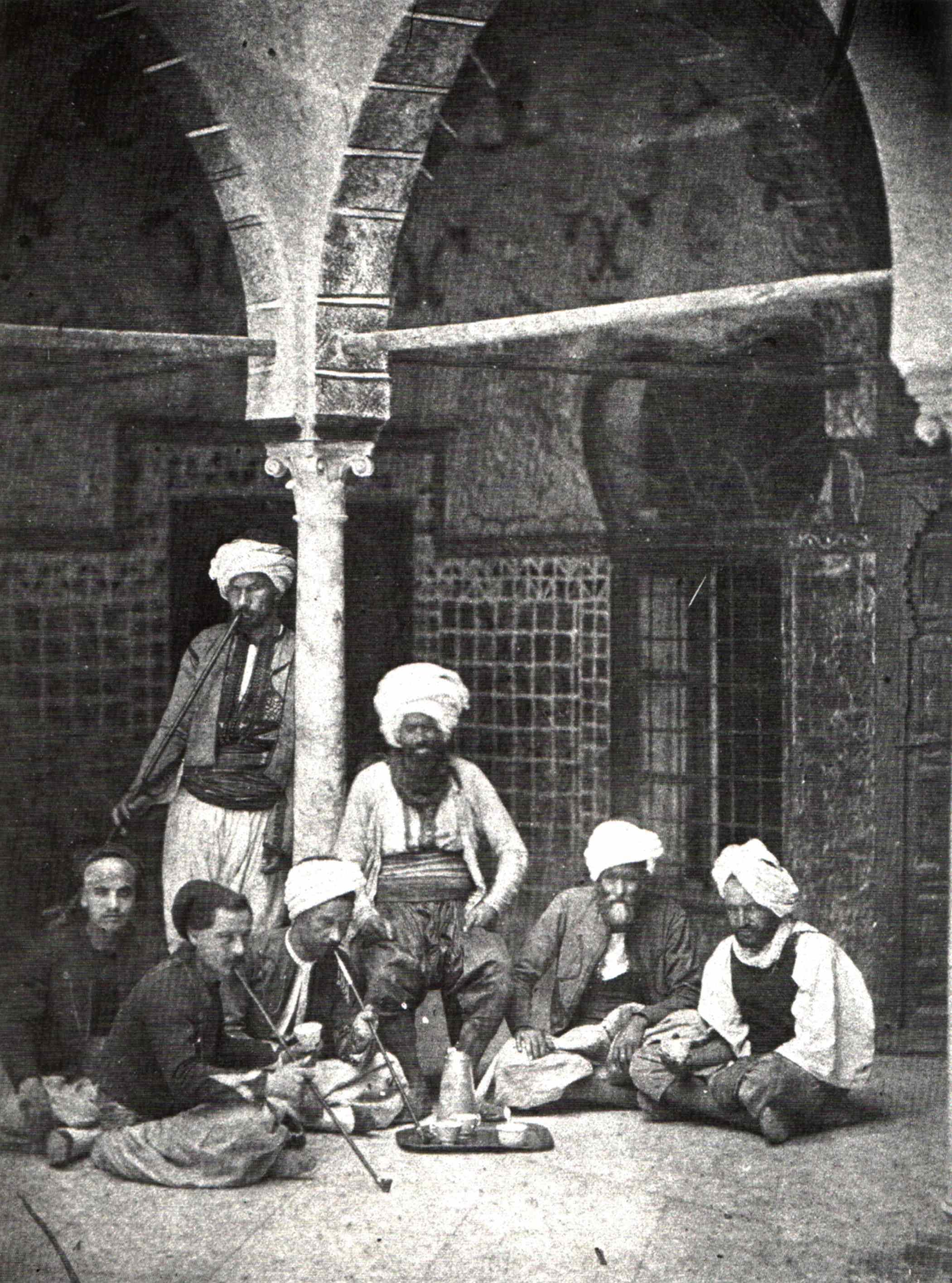 arab men smoking pipe and drinking turkish coffee in a coffee shop corner in jerusalem